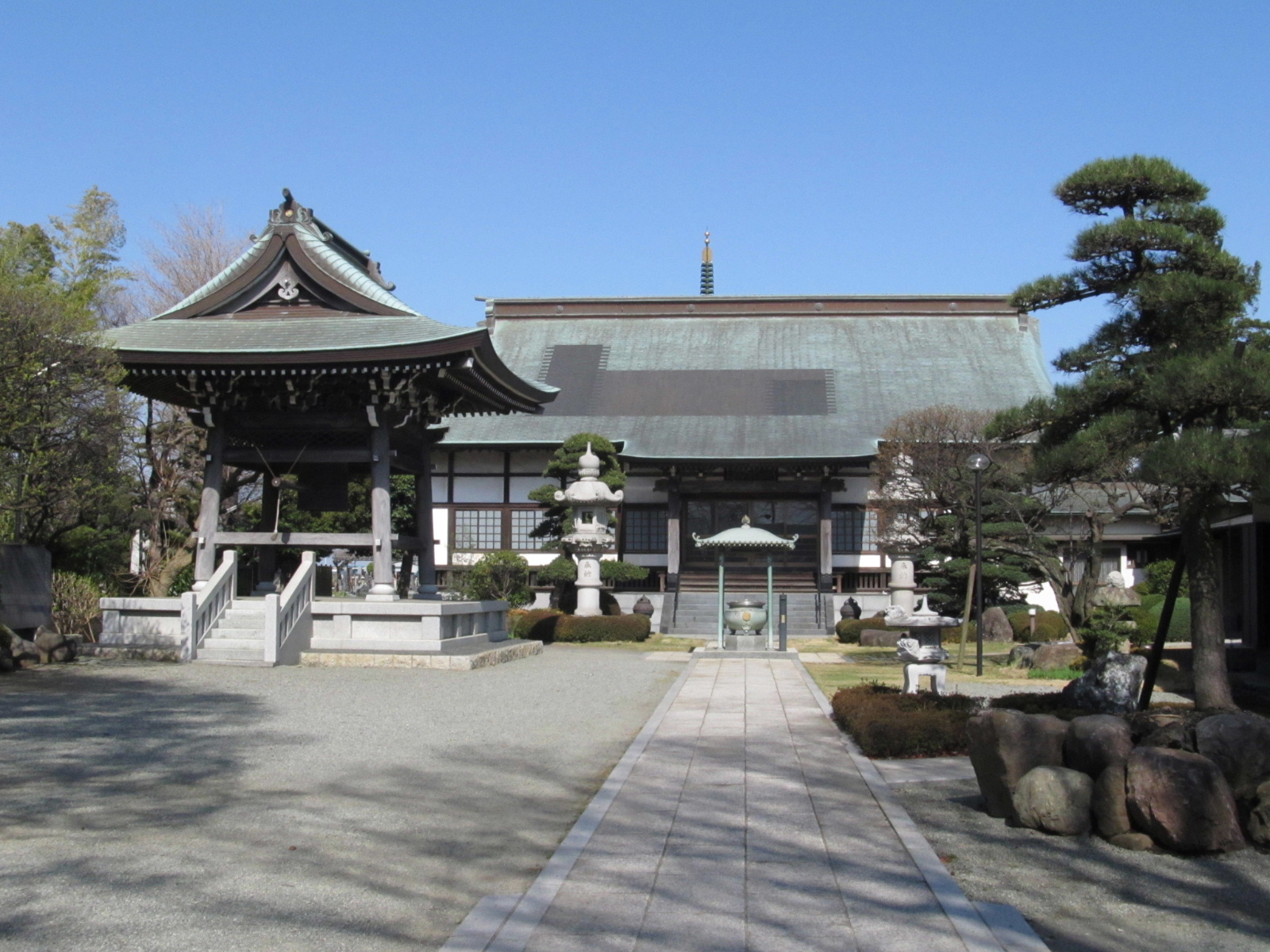 Unshō-ji in Fujisawa City, Kanagawa Prefecture, Japan